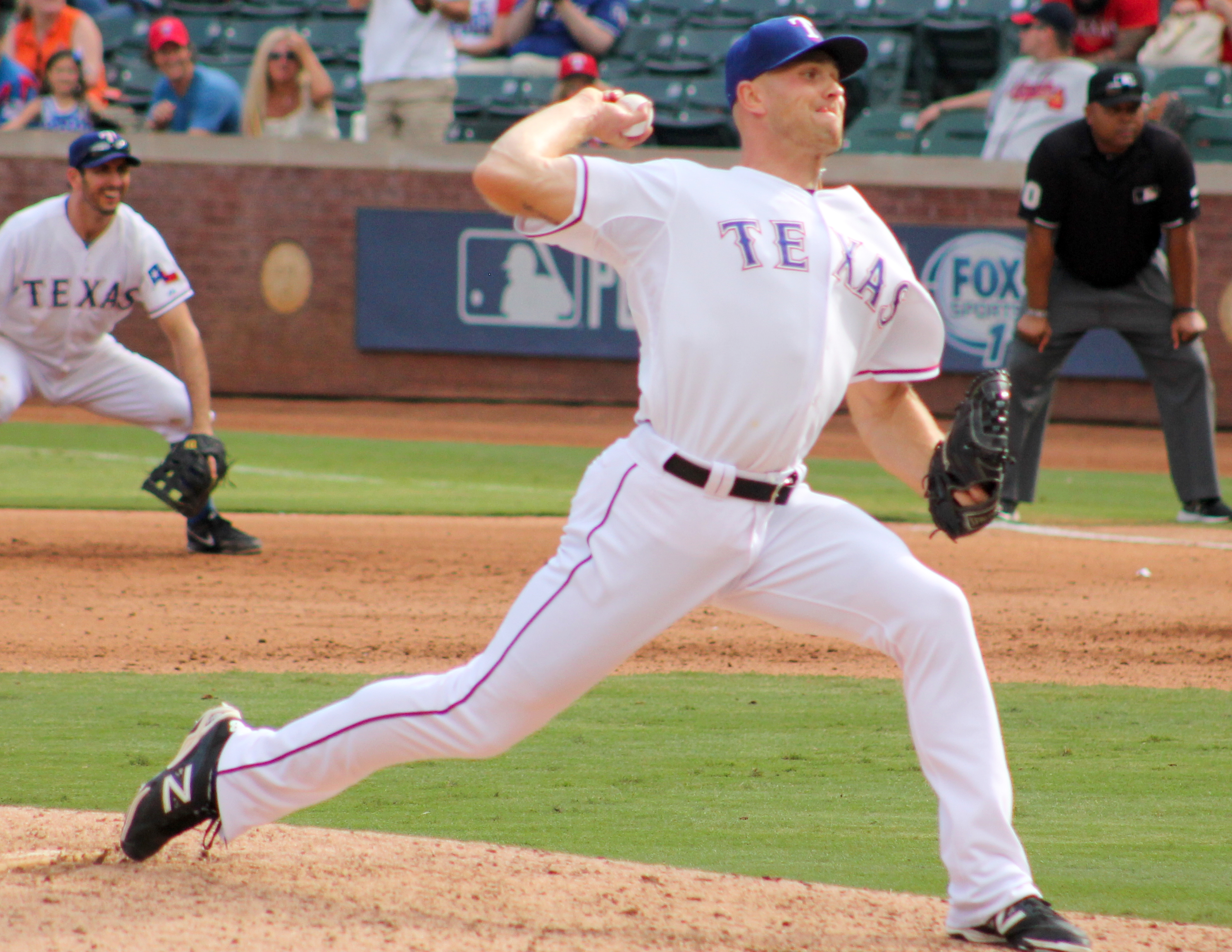 Professional baseball player Jon Edwards pitches in Arlington during a September 2014 game.